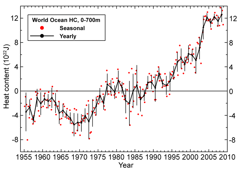 This graph shows a time series of seasonal (red dots) and annual average (black line) global upper ocean heat content for the 0-700m layer between 1955 and 2008. The graph shows that ocean heat content has increased over this time period, and is one of the many lines of evidence for global warming. From the cited public-domain source (NOAA, 2010): "While ocean heat content varies significantly from place to place and from year-to-year (as a result of changing ocean currents and natural variability), there is a strong trend during the period of reliable measurements. Increasing heat content in the ocean is also consistent with sea level rise, which is occurring mostly as a result of thermal expansion of the ocean water as it warms." More information on the graph can be found in Johnson et al. (2009). References: Ch. 3: Global Oceans, J.M. Levy, Ed.: c. Ocean heat content, G.C. Johnson, et al., fig 3.7, s.51, in: State of the Climate in 2008, as appearing in the August 2009 issue (Vol. 90) of the Bulletin of the American Meteorological Society (BAMS).